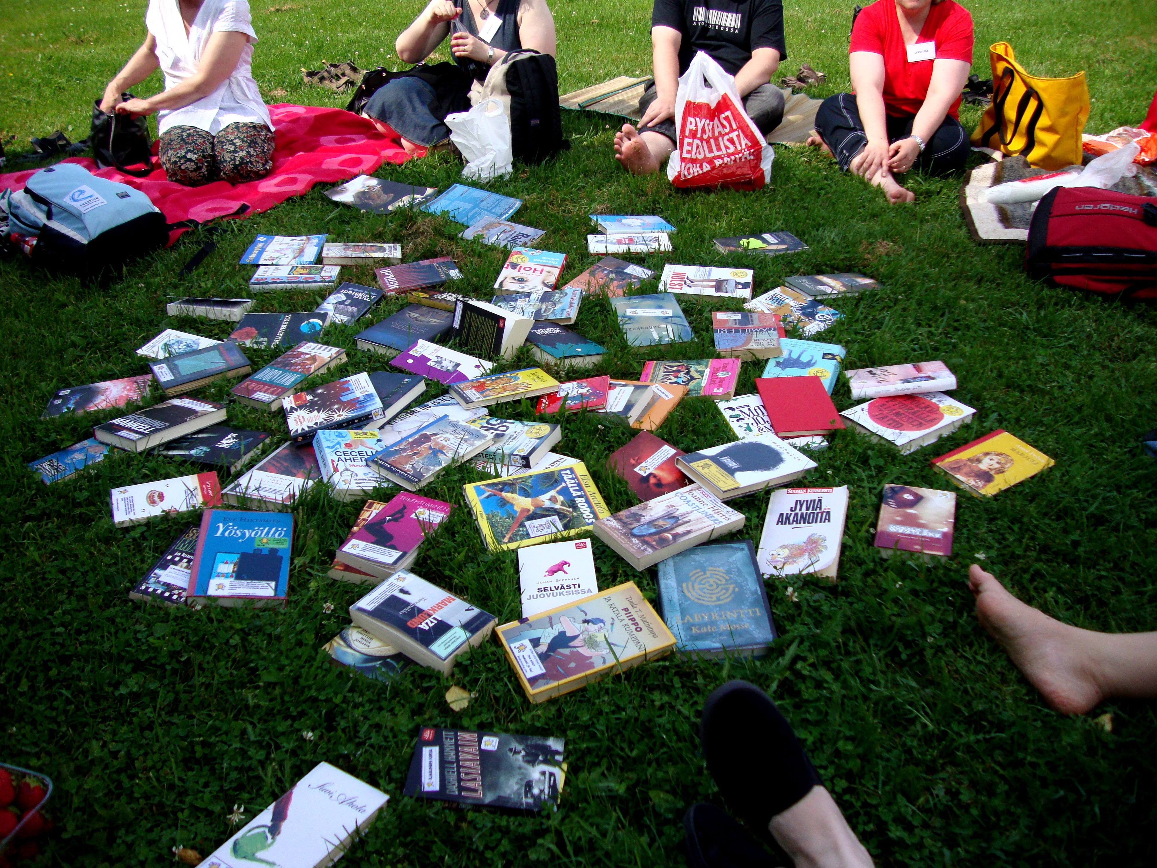 BookCrossing picnic in Pieksämäki, Finland